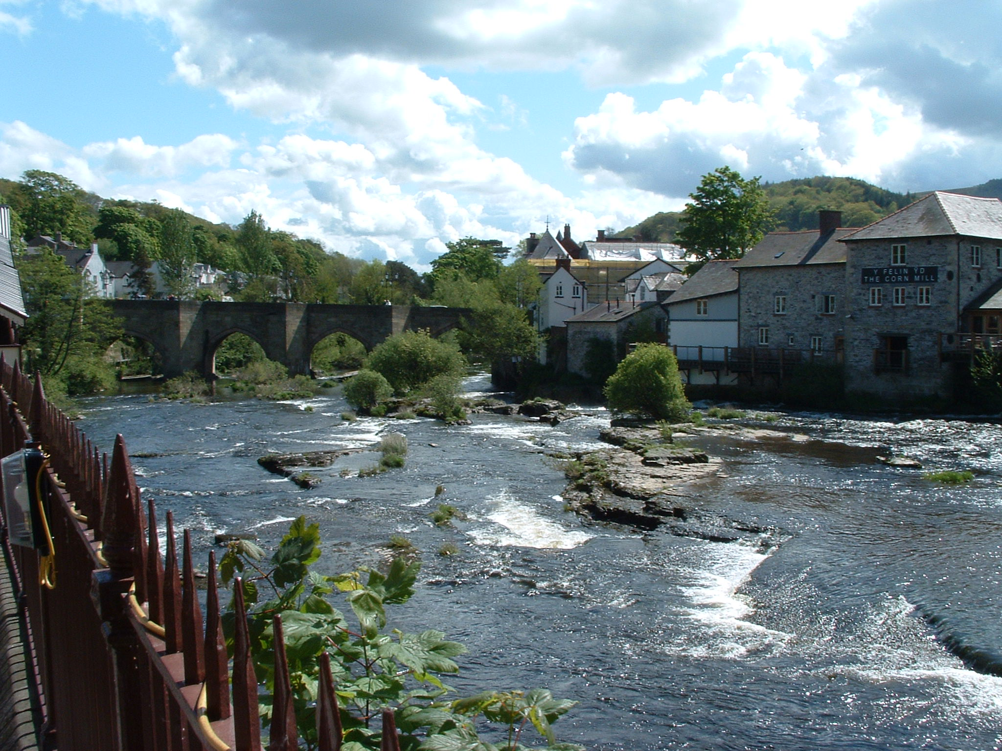 Llangollen, view from the railway station. Picture by Akke Monasso